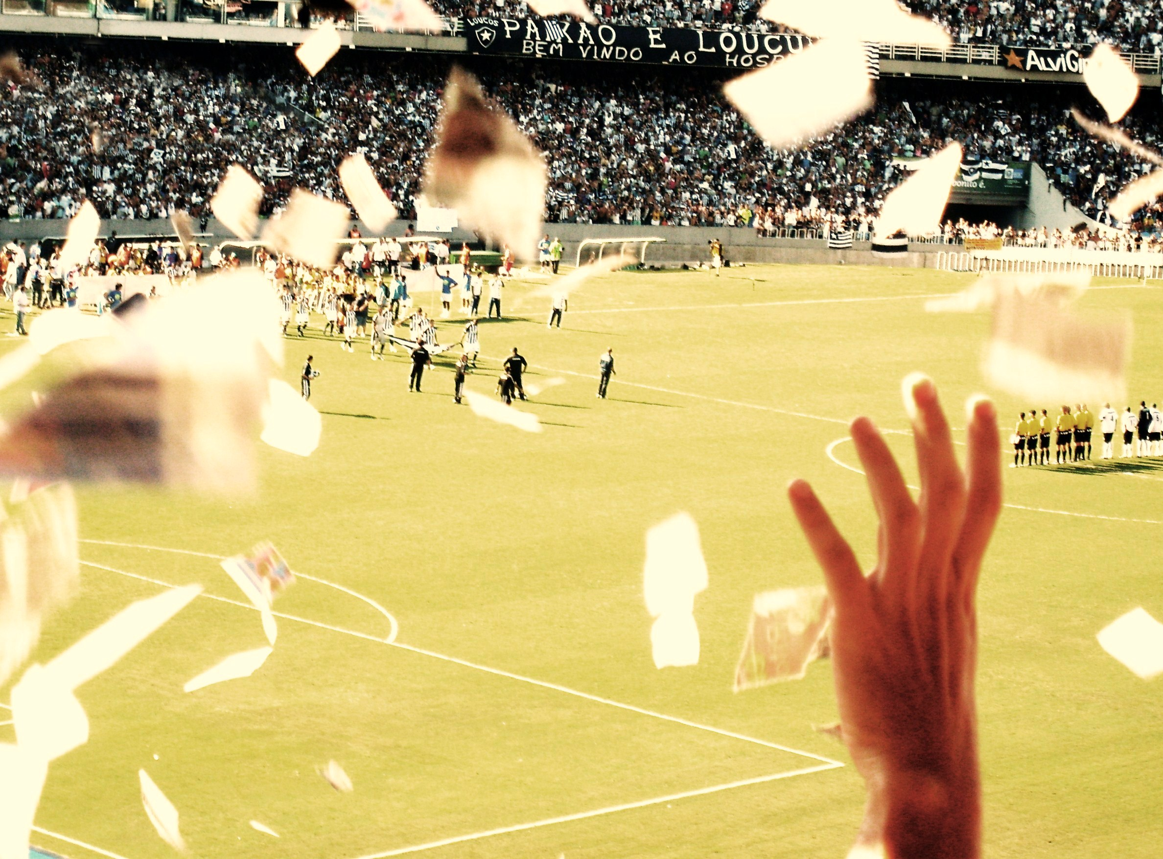 Botafogo's fans celebrating the team at 2009 Taça Guanabara.